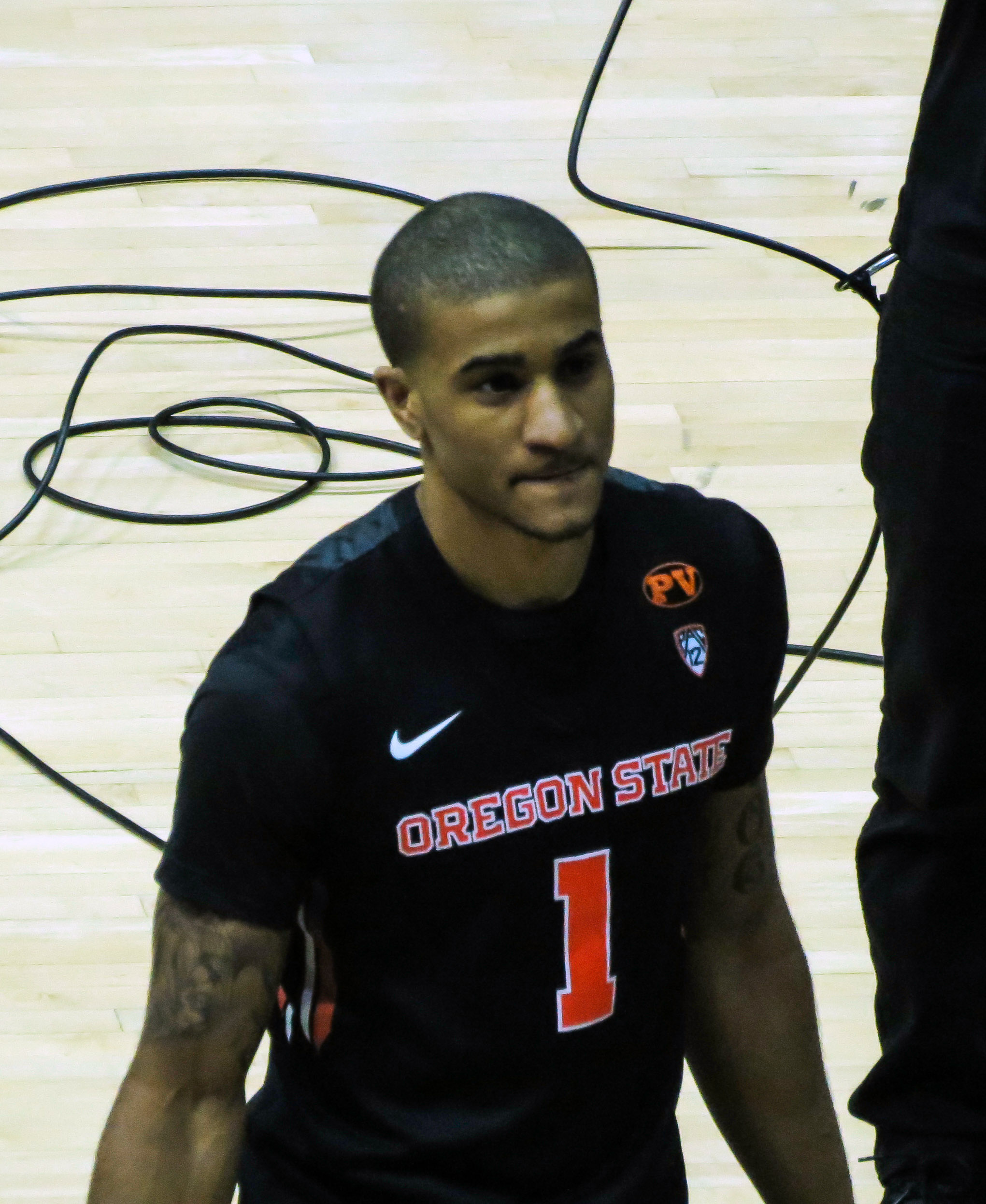 GPII during a timeout of the Oregon State-Cal game in Berkeley, 2015